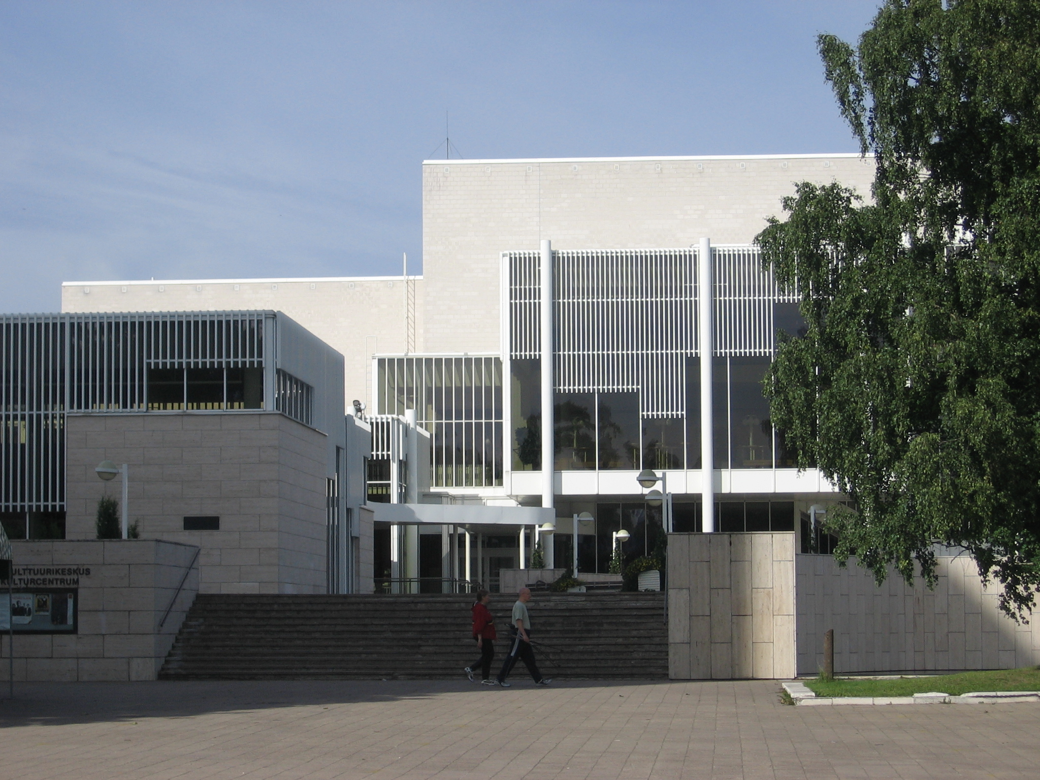 The Espoo Culture Center as seen from south.